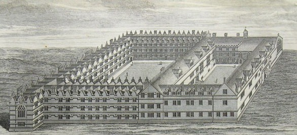 An illustration of Jesus College, Oxford from "The Oxford Almanack for the Year of Our Lord God, MDCCXL"